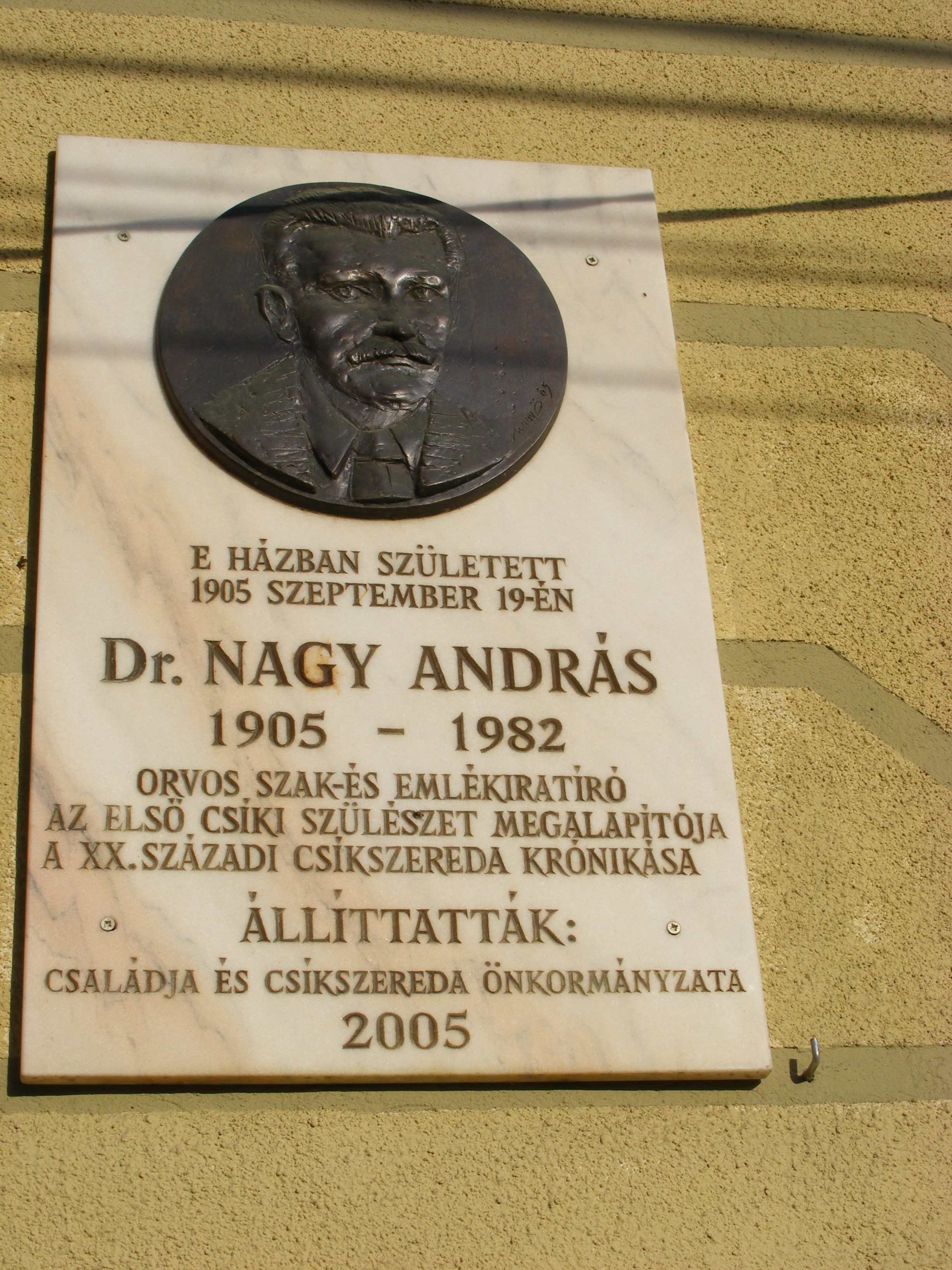 A memorial for Dr. Nagy András, Csíkszereda.